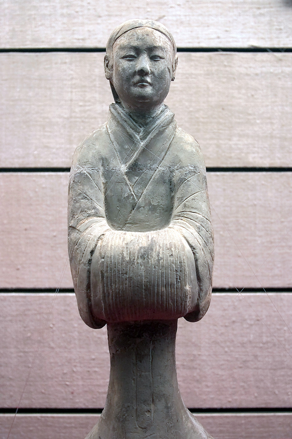 A Chinese Han Dynasty (202 BC - 220 AD) ceramic figurine of a lady servant with hands placed in front and covered in long silk sleeves.